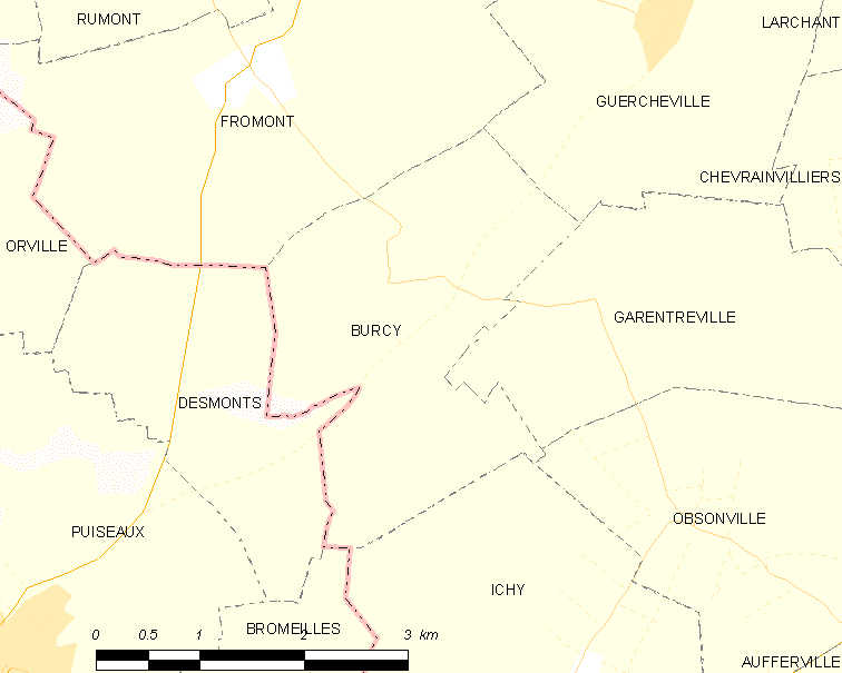 Map of French municipality Burcy